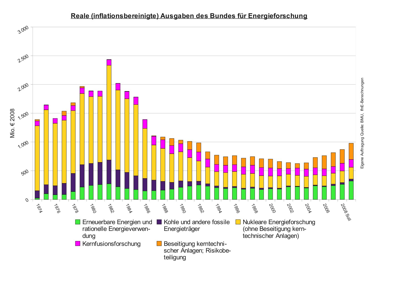 time series of the research spending from the Federal Republic of Germany for energy research without the single federal states